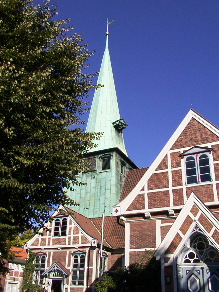 Church "St. Peter and Pauli" at Hamburg-Bergedorf, Germany. Built in 1502 at the location of a construction from 1162; the clock tower was erected in 1759 by Erich Sonin, a famous architect in Northern Germany.